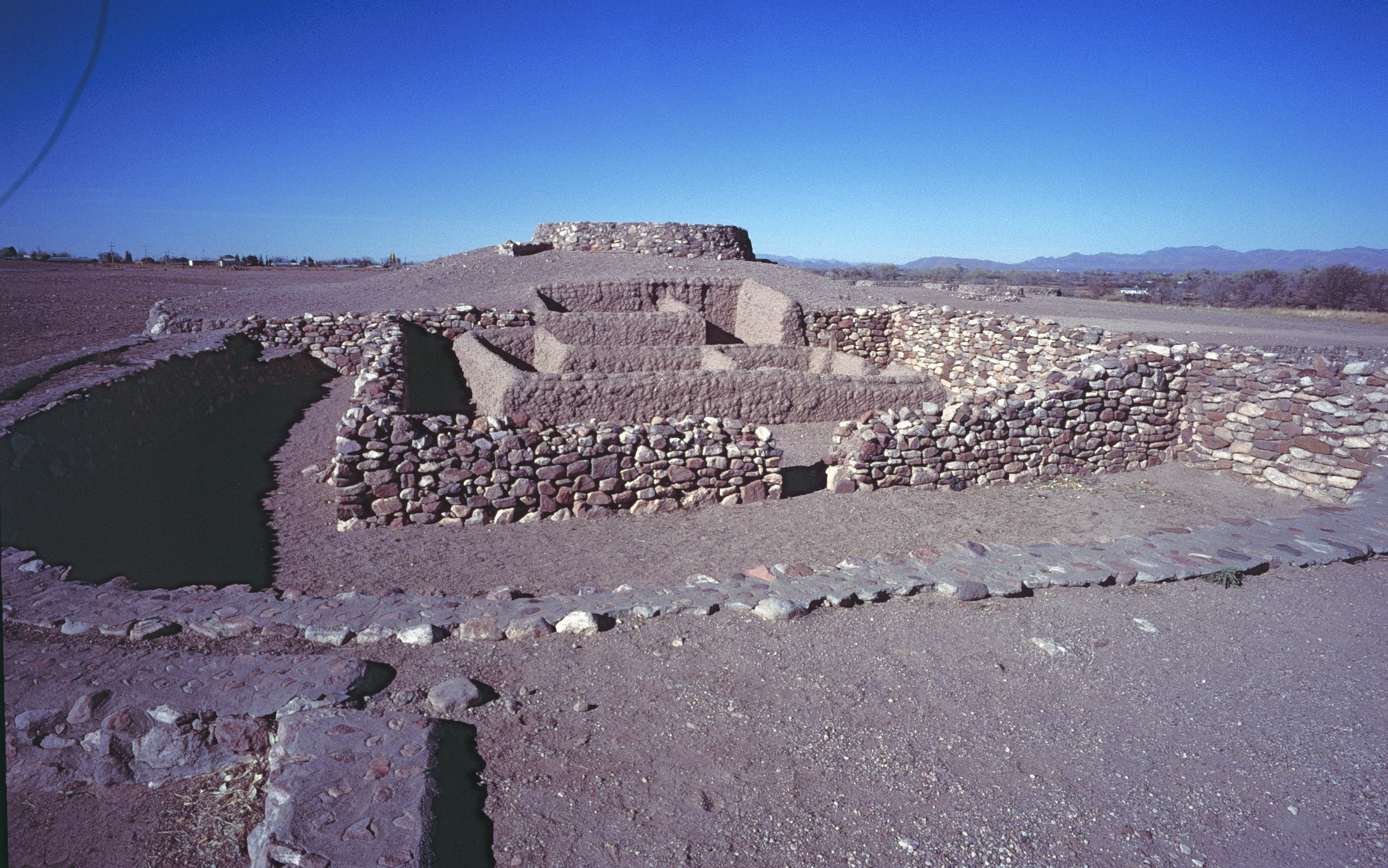 Paquimé, Chihuahua, Mexico: Mound of the offerings